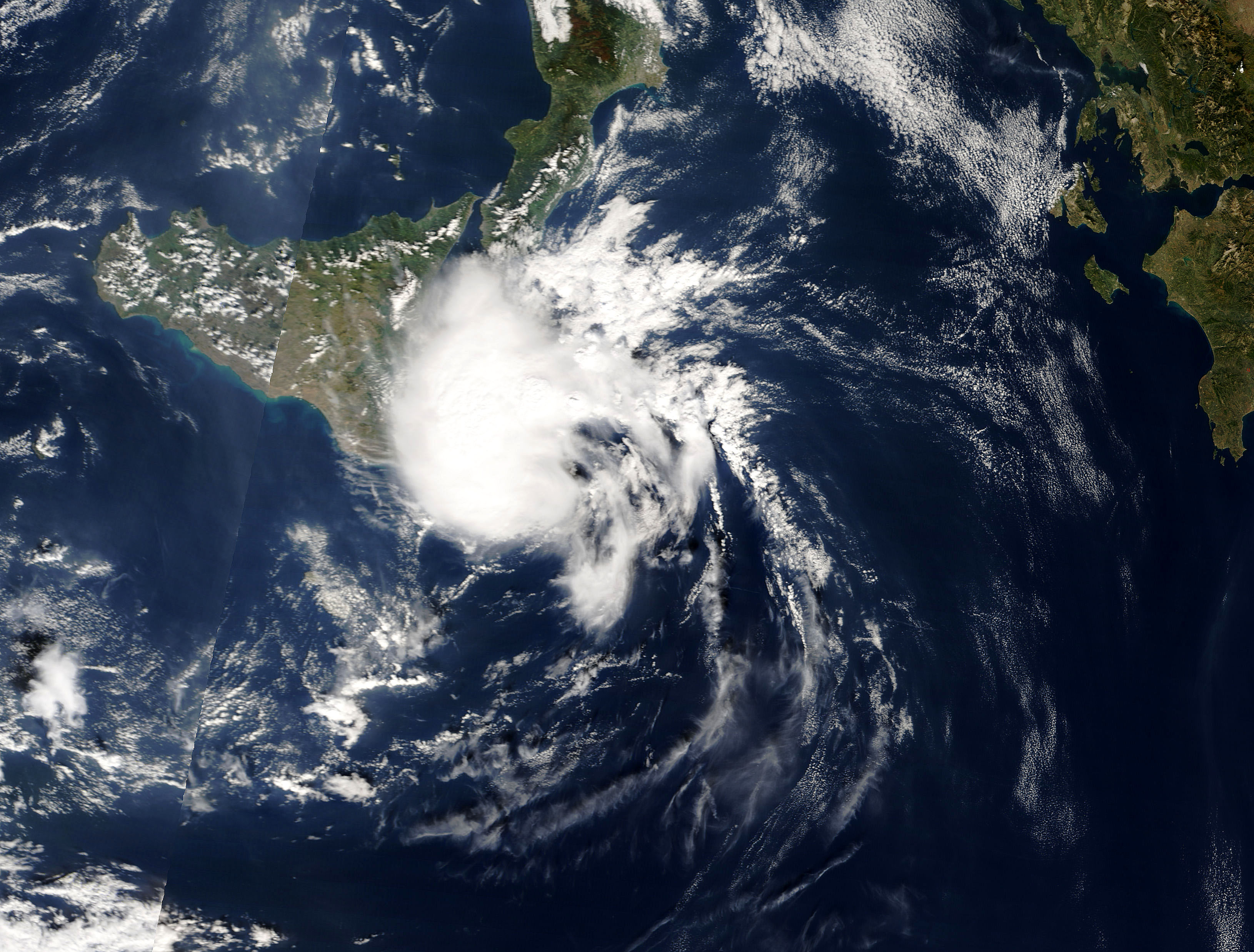 A possible tropical cyclone south of Sicily.